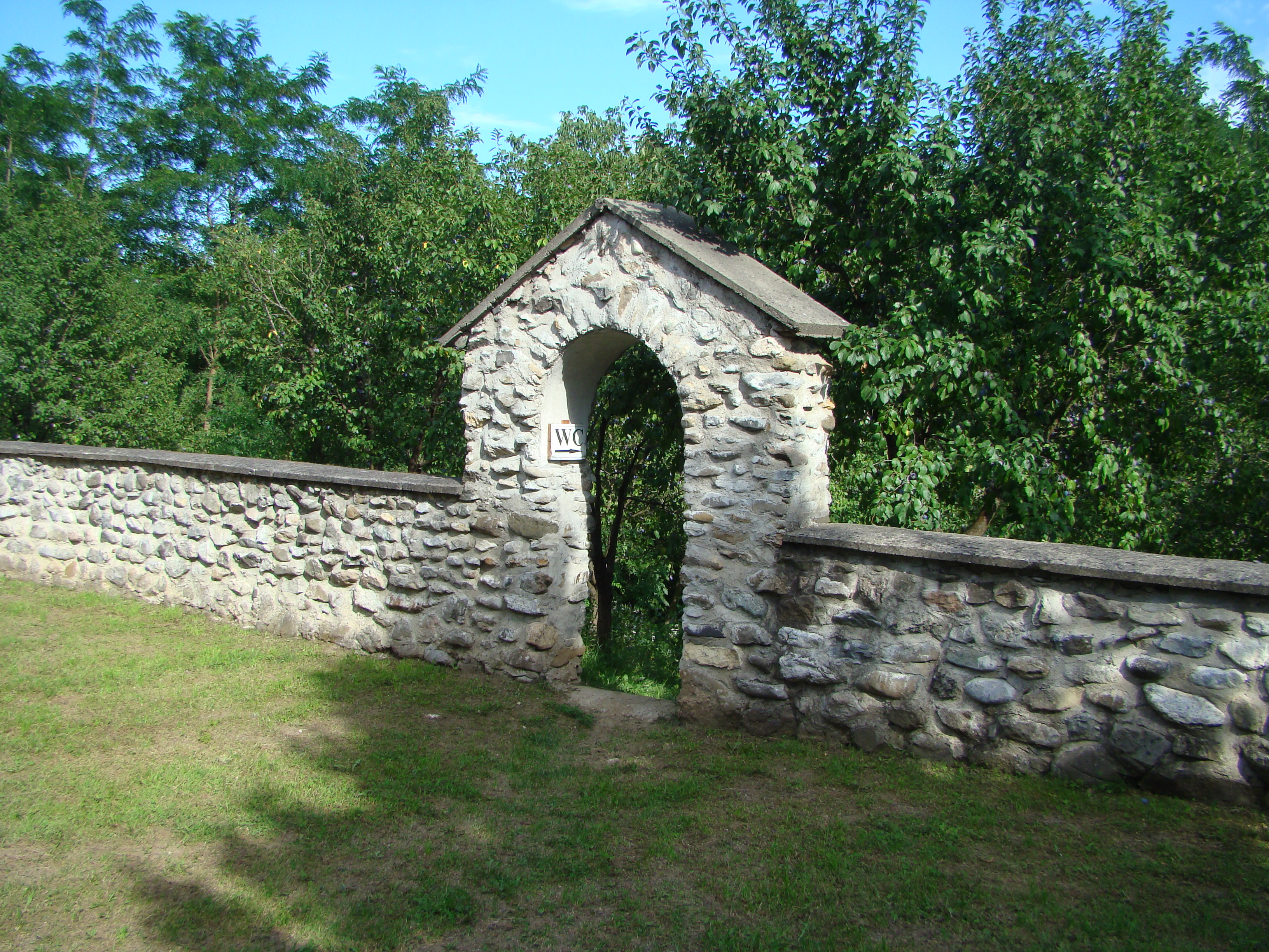 Măgina Monastery, Alba county, Romania 02